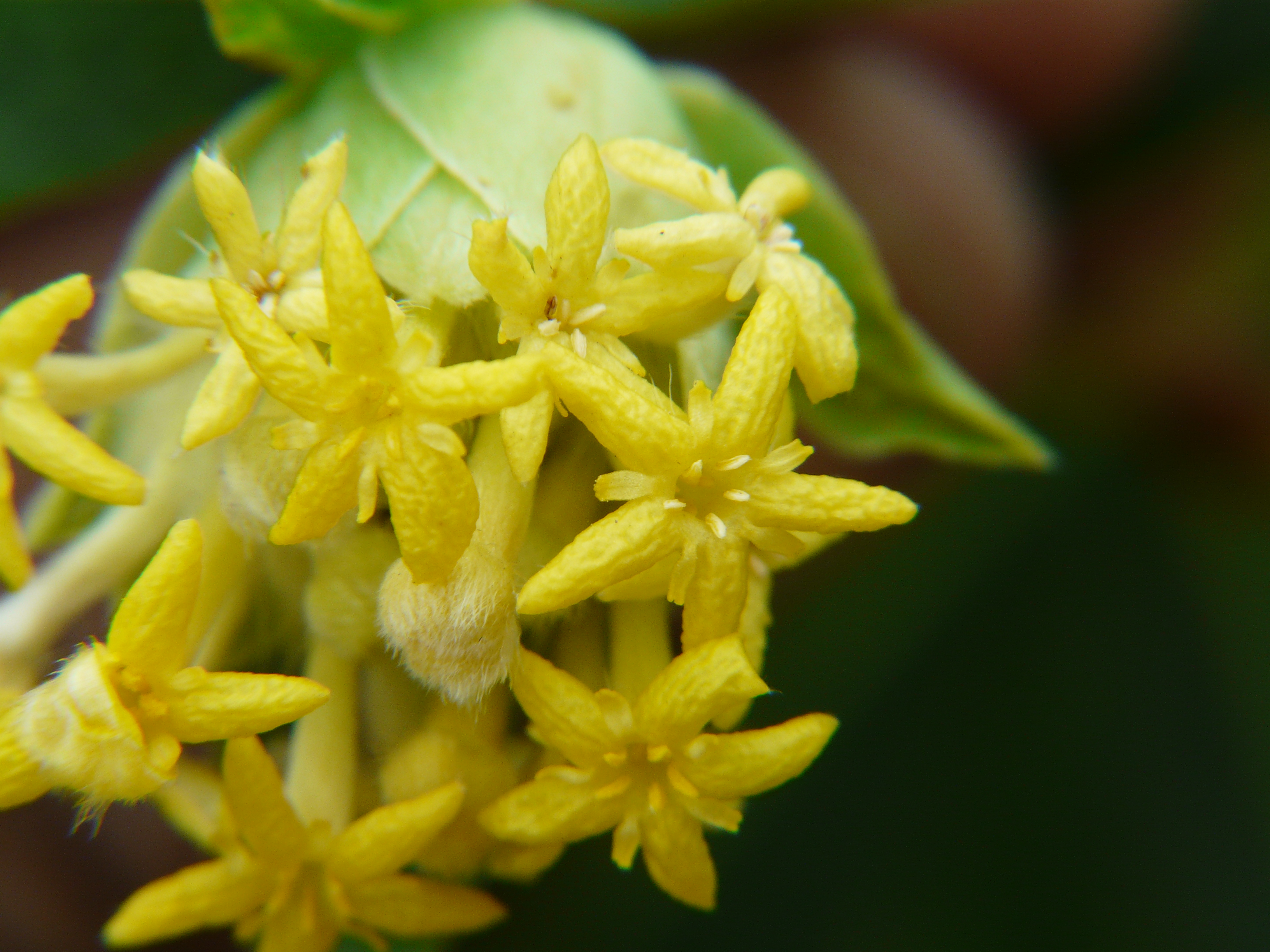 Thymeleaceae (daphne family) » Gnidia glauca NY-dee-uh -- pertaining to Gnidus (also spelled Knidos and Cnidus), in Caria (Asia Minor) GLAW-kuh -- meaning, bloom has thin powder (like plums) commonly known as: balsam tree, fish poison bush, woolly-headed gnidia • Kannada: mukkudaka, mukuthi, raami • Malayalam: nanju • Marathi: दांतपाडी datpadi, रामेठा rameta • Tamil: nacchinar References: Flowers of India • Common Indian Wild Flowers by Isaac Kehimkar • Flowers of Sahyadri by Shrikant Ingalhalikar